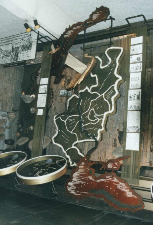 Description: Part of the exhibition of the ‘’Museum of the History of Zaporozhian Cossackdom’’ on Khortytsya island in Zaporizhzhya/Ukraine. The picture shows the ancient waterway from Scandinavia to Greece. Source: self-made Date: August 2002 Photographer: Christian Ganzer